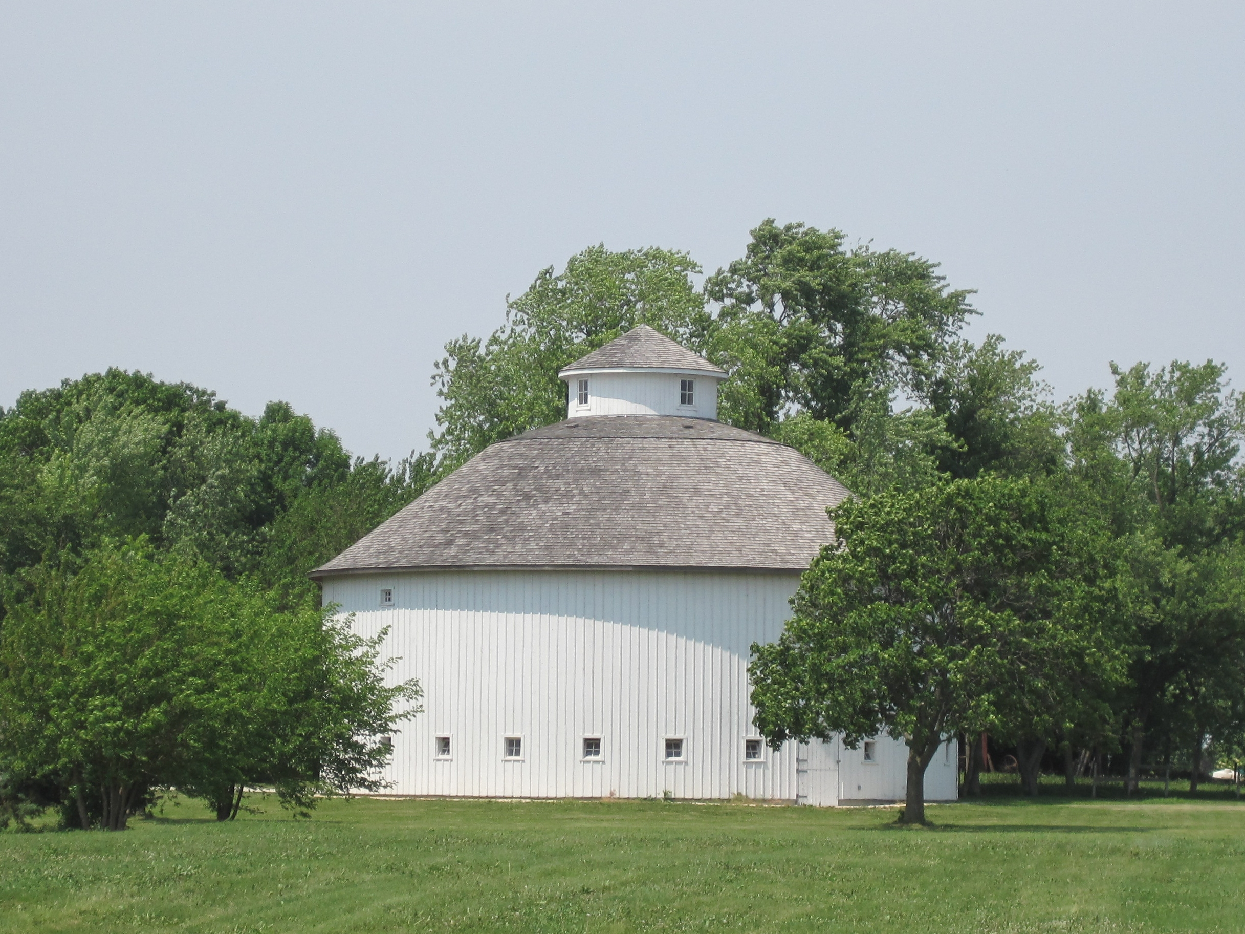 I (Teemu08 (talk)) took this image on June 8, 2011